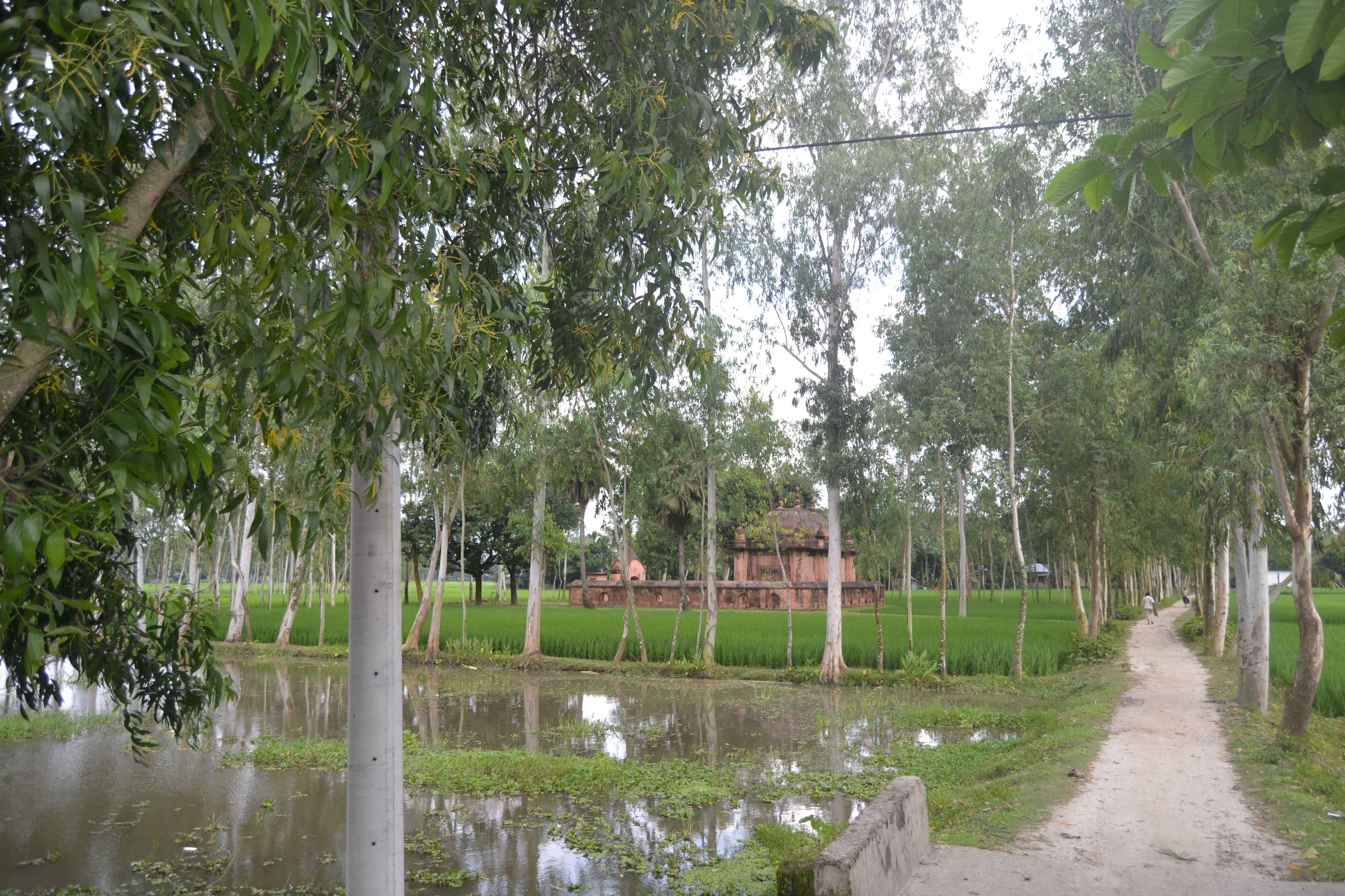 Mithapukur Bara Mosque